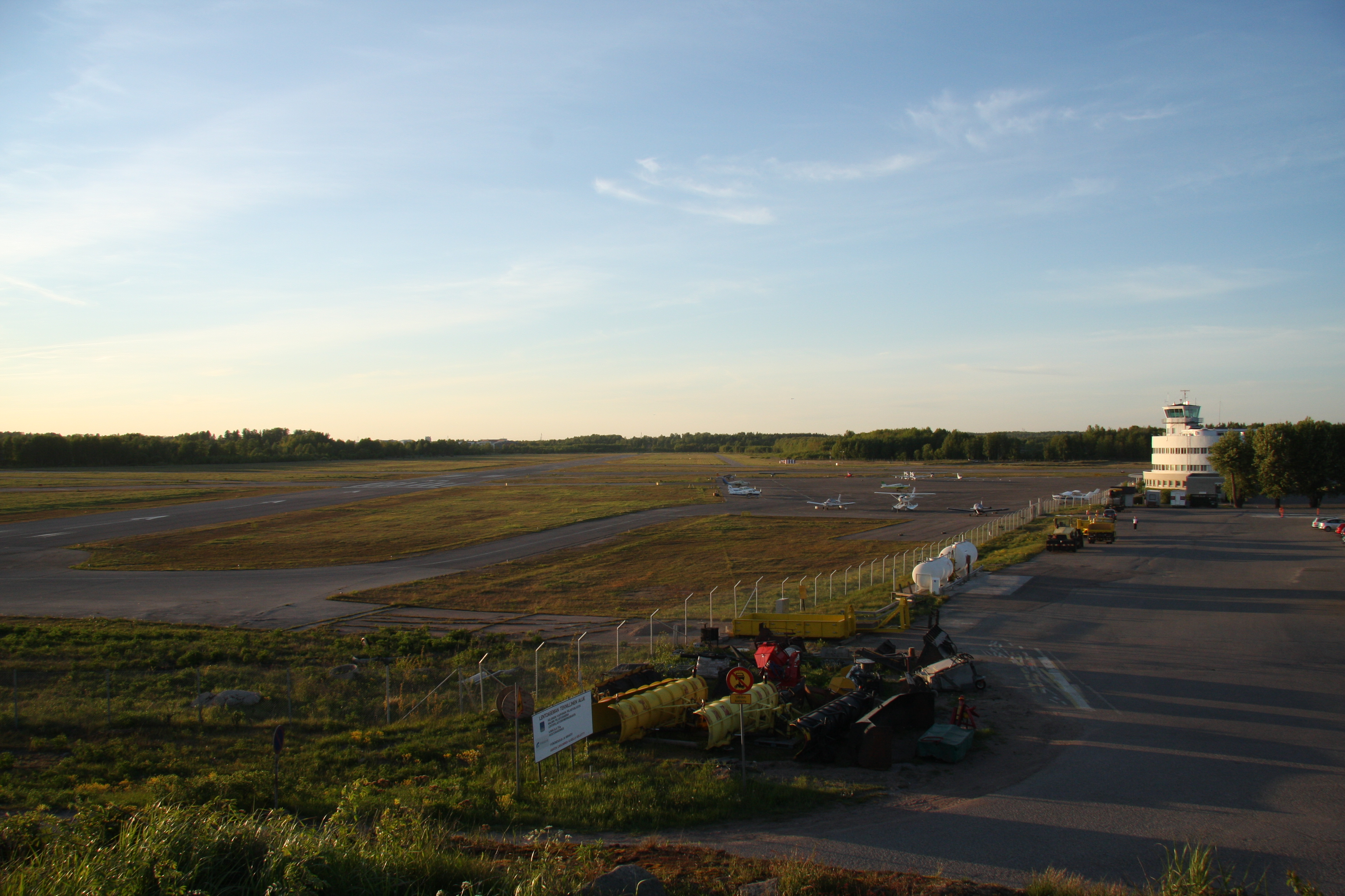 Runways at Helsinki-Malmi airport, Helsinki, Finland.